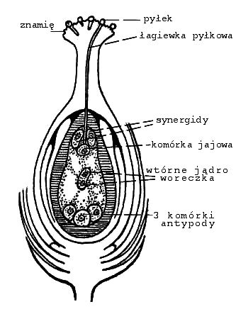 Gynoecium (Pistil)